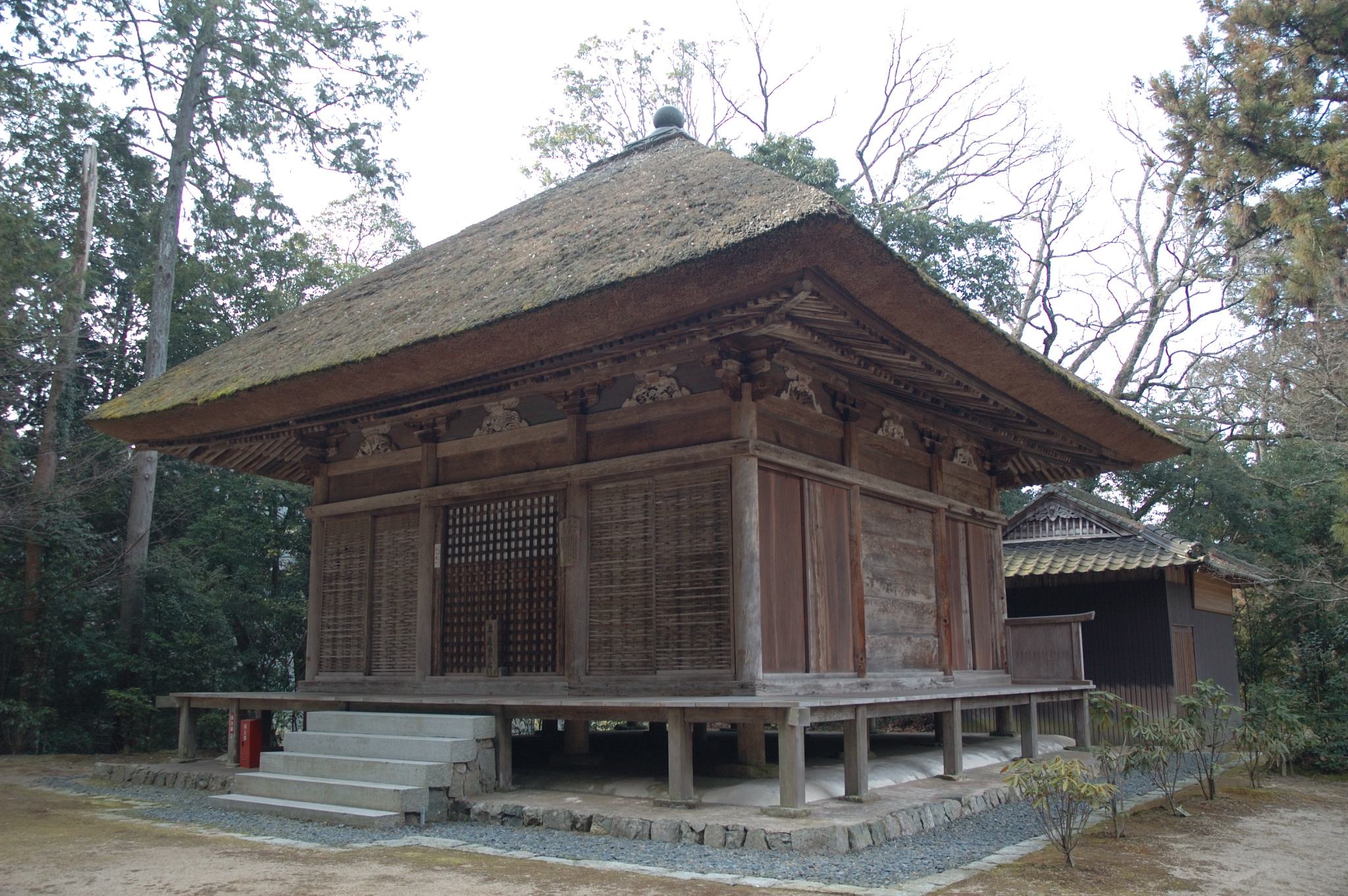 Jogyodo (built in 1519)